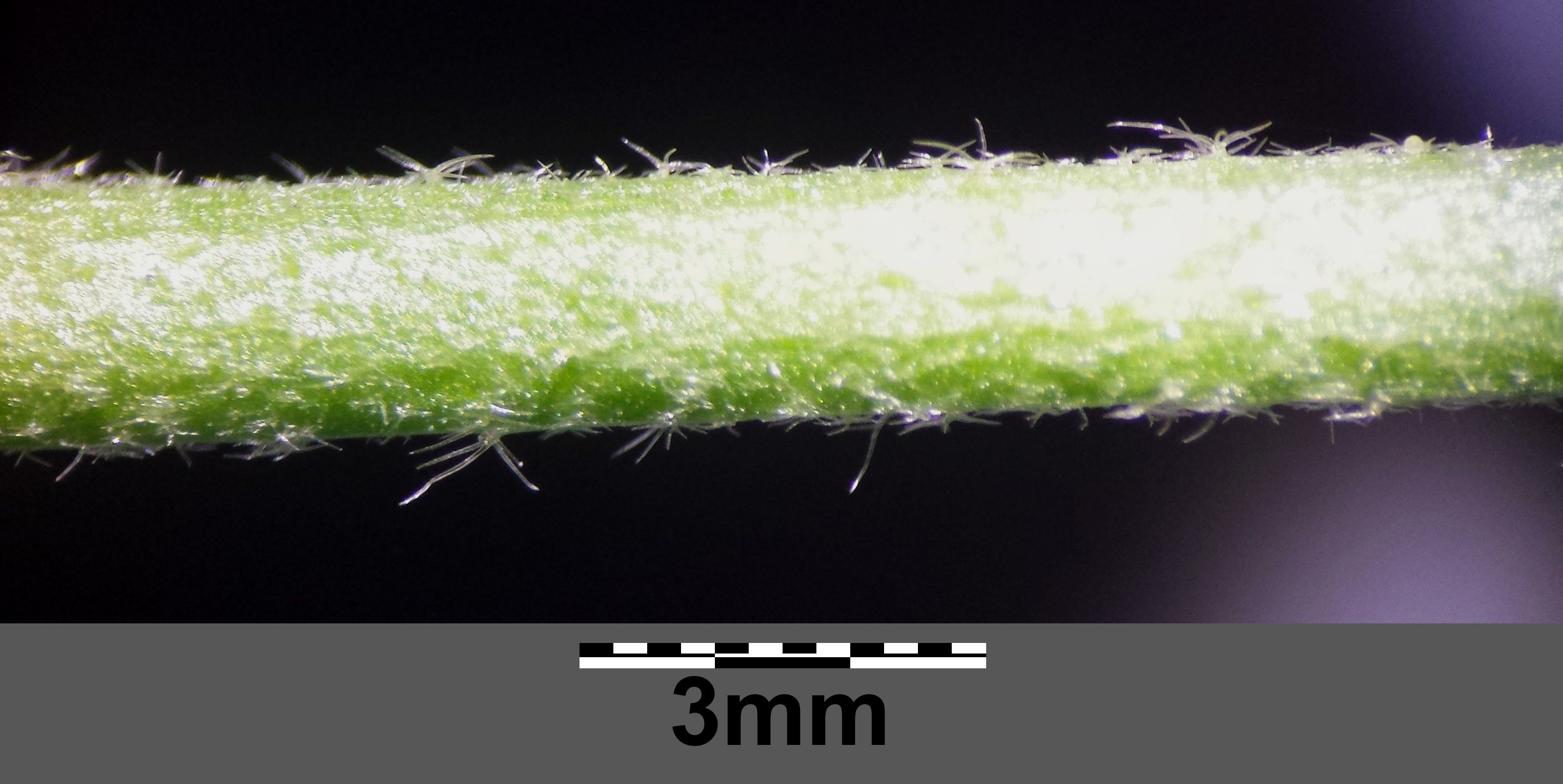 Stipe with branched hairs Taxonym: Malva alcea ss Fischer et al. EfÖLS 2008 ISBN 978-3-85474-187-9 Location: Merkersdorf, district Korneuburg, Lower Austria - ca. 250 m a.s.l. Habitat: ruderal meadows